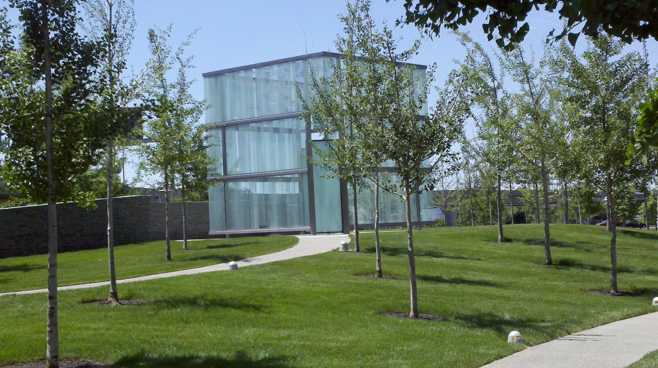 The memorial to the victims aboard the planes used in the September 11, 2001 attacks, at Logan Airport in Boston, where the planes departed